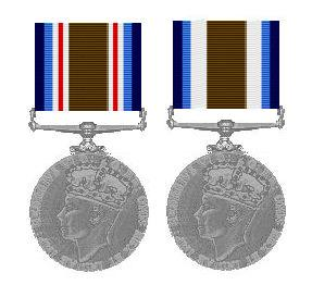 The correct ribbons Source: P.E. Abbott en J.M.E. Tamplin: "British Gallantry Awards" Londen z.j. H. Tapprel Dorling, Ribbions and Medals, Londen 1974